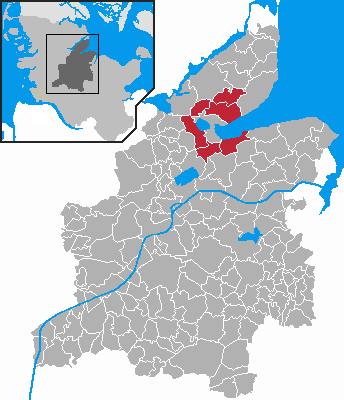 This map shows the area of the Amt (county) Windeby in the Kreis (district) Rendsburg-Eckernförde, Schleswig-Holstein, Germany.